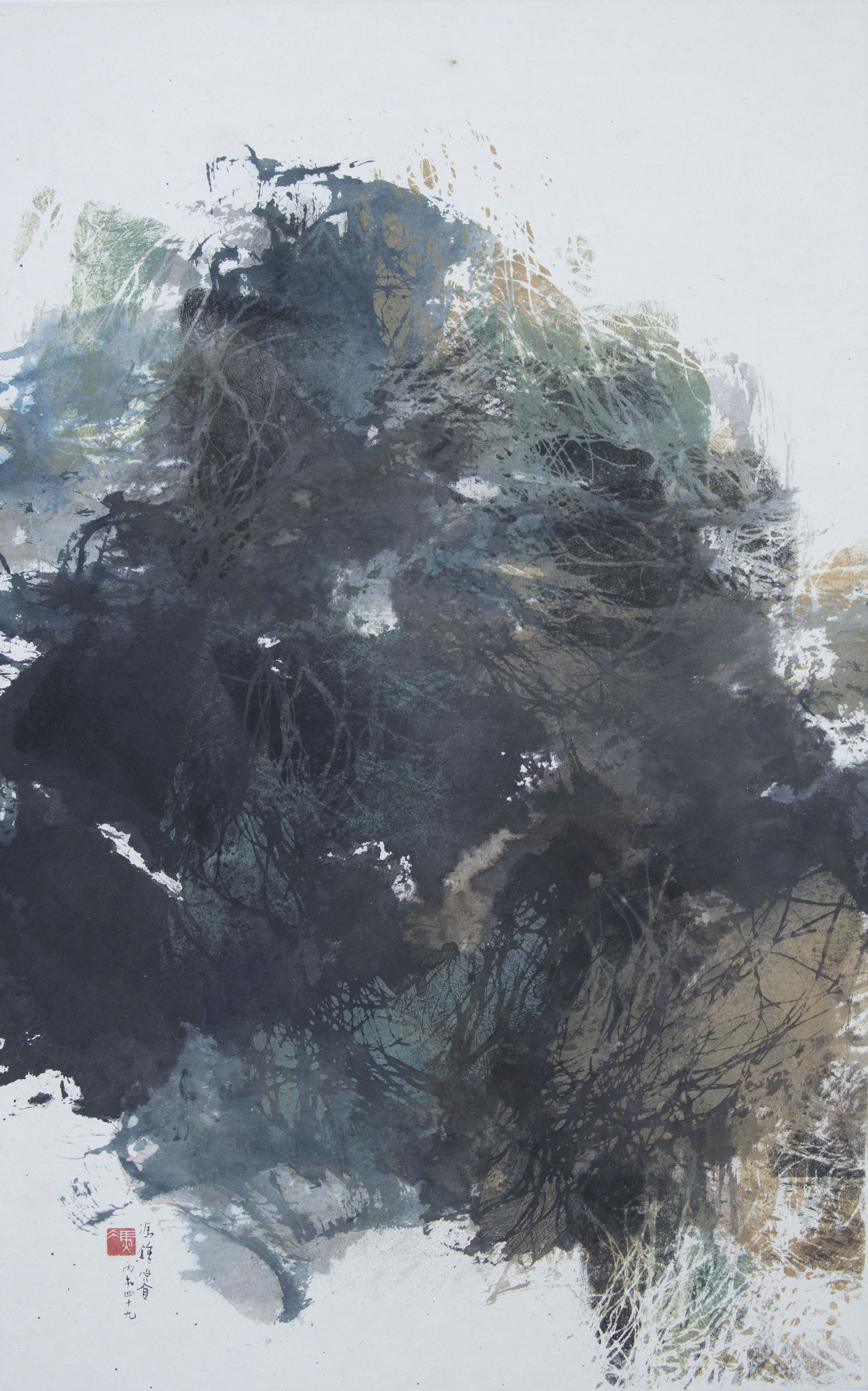 Fong Chung-ray, 1966